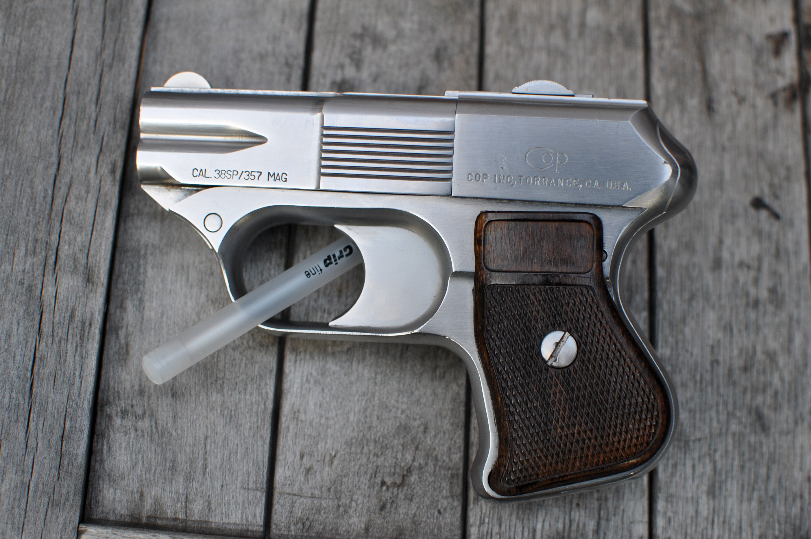 A COP 357 Derringer